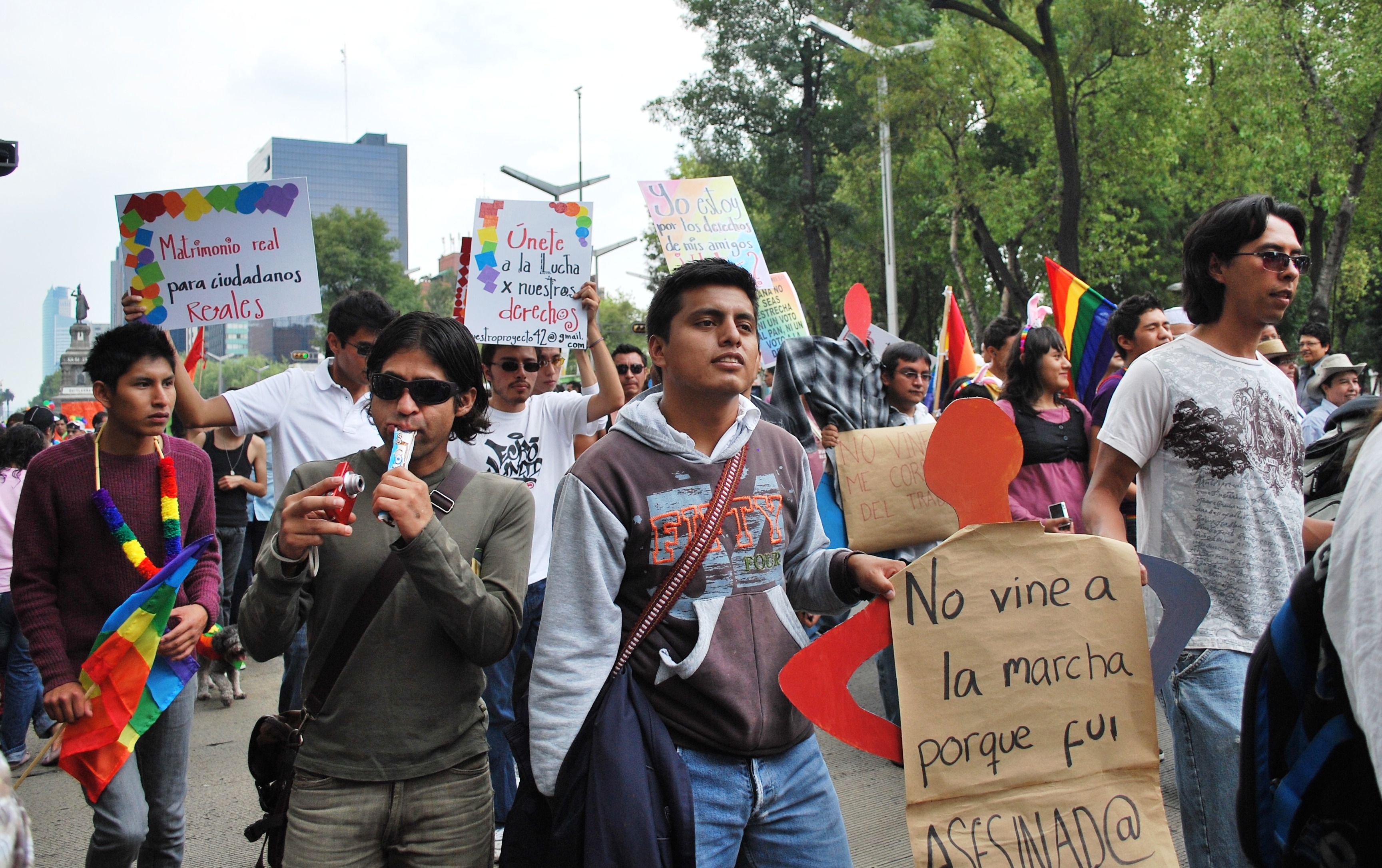 Protesters for gay marriage at the 2009 Marcha Gay in Mexico City